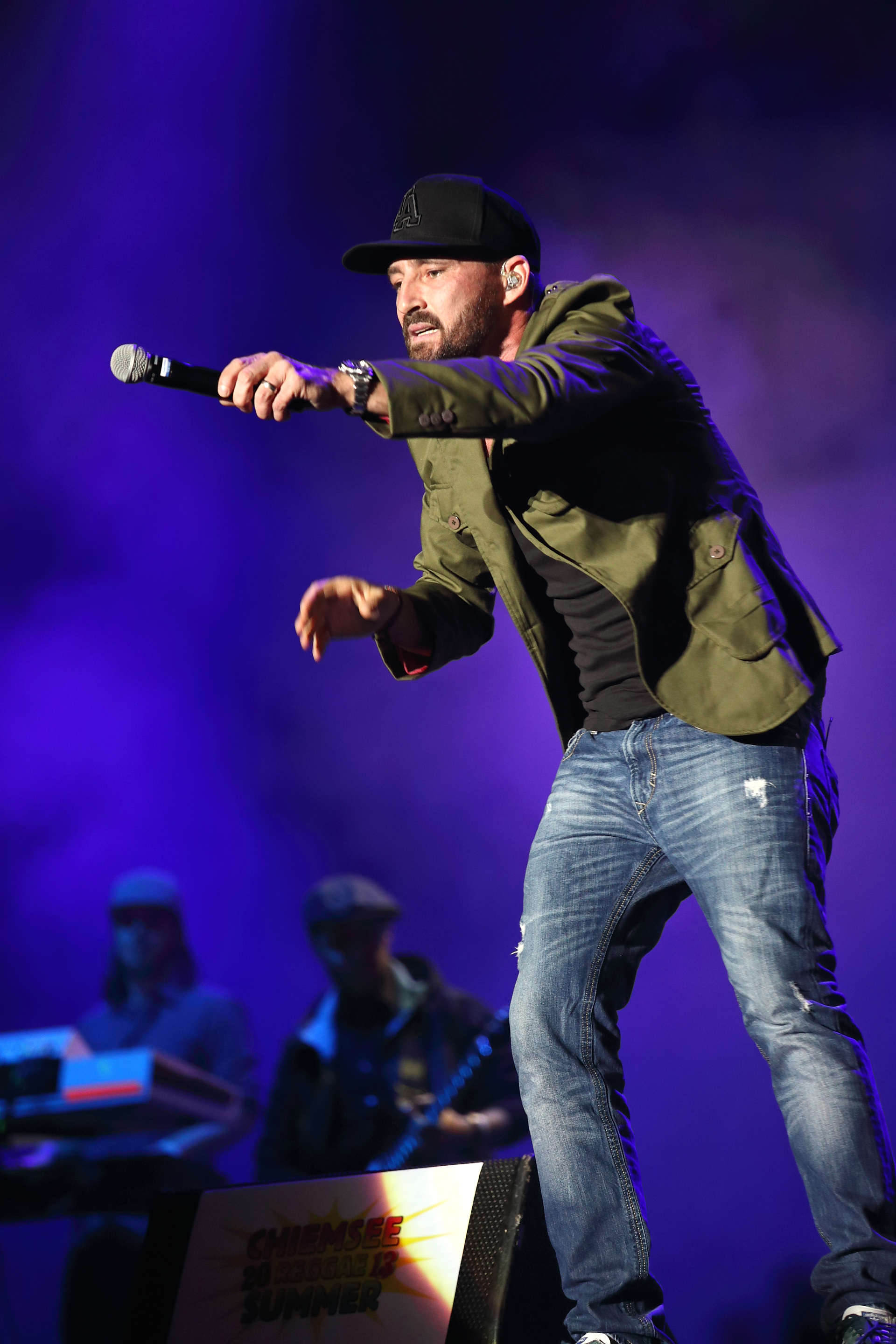 Gentleman auf dem Chiemsee Reggae Summer 2013 Festivalsommer This photo was created with the support of donations to Wikimedia Österreich and Wikimedia Deutschland in the context of the CPB project "Festival Summer".